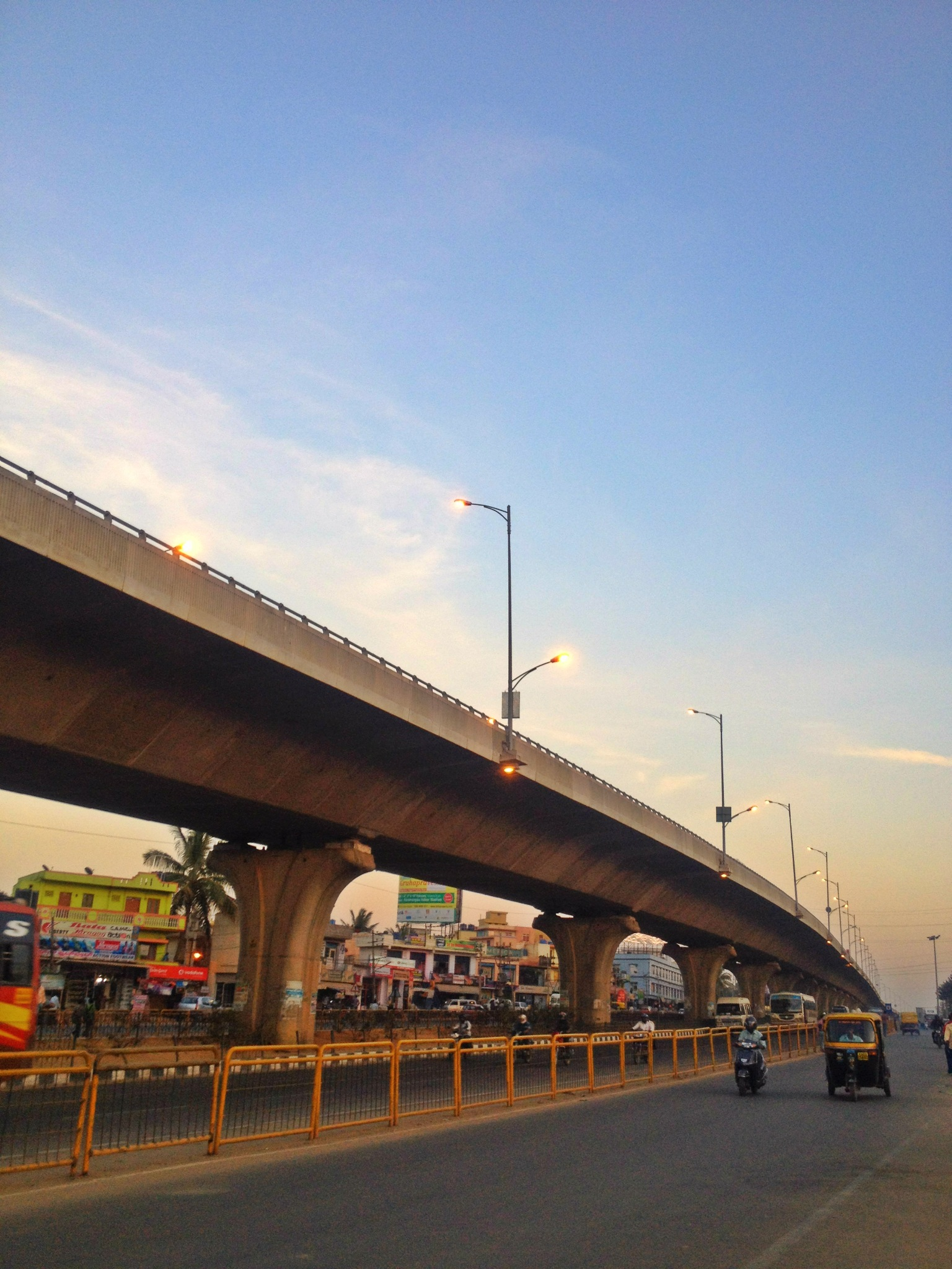 Electronic City Flyover near Singasandra bus stop